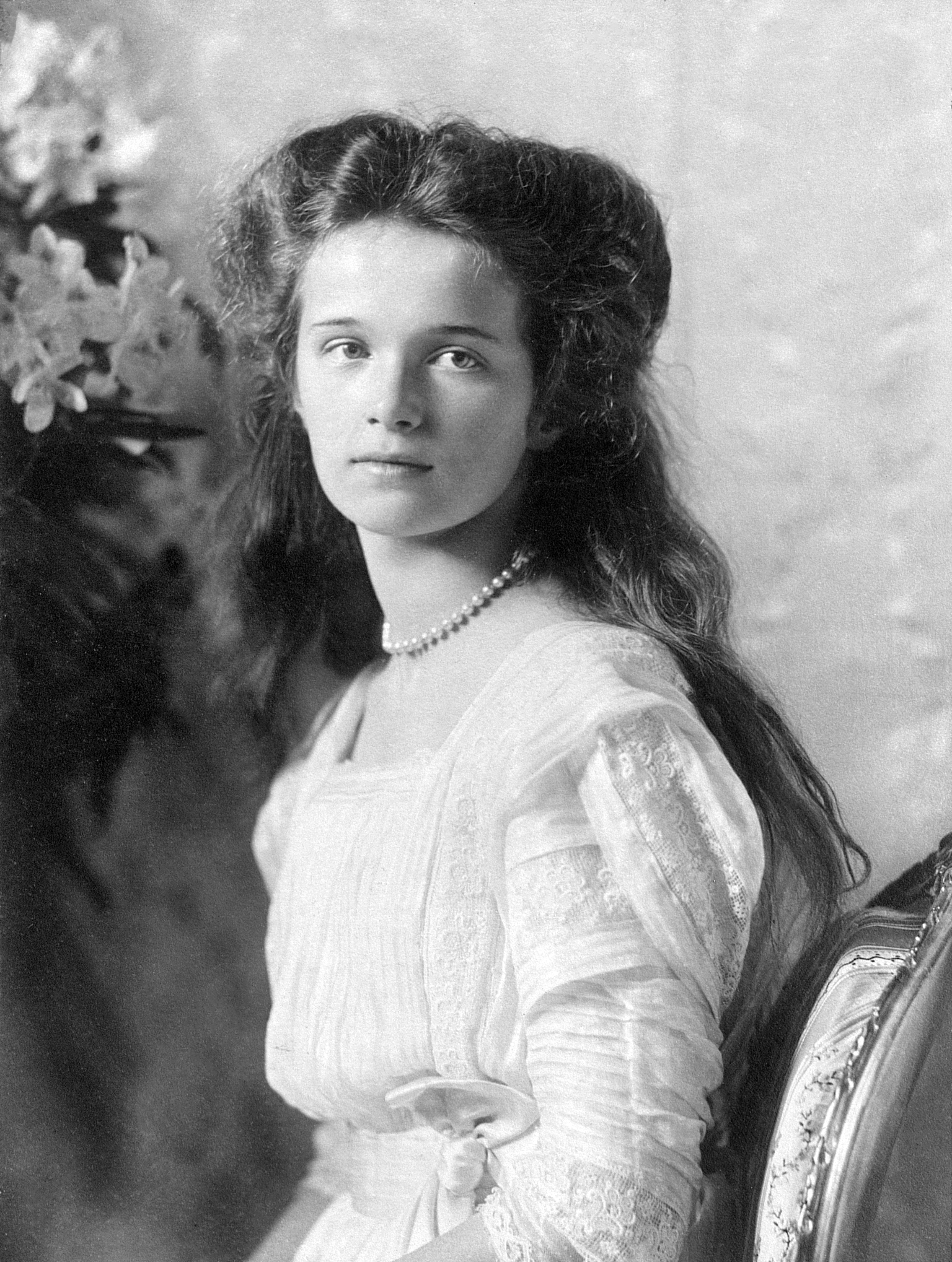 I found this photo at It is an official portrait of Grand Duchess Olga Nikolaevna of Russia, taken in 1910. Portraits of her sisters that were taken in the same year and at the same photo session were uploaded and listed as public domain. These portraits were all published on post cards prior to World War I and were available in multiple countries in Europe and probably also in the United States. It's also available on multiple sites on the Internet. I attempted to e-mail the owner of the Web site where I found the photo, but the link for his e-mail is broken. However, I think the image is most likely public domain. If for whatever reason it is not, I don't think the commercial value will be affected because there are better quality images elsewhere and because the image is widely available. If I am mistaken for any reason, please delete the photo.